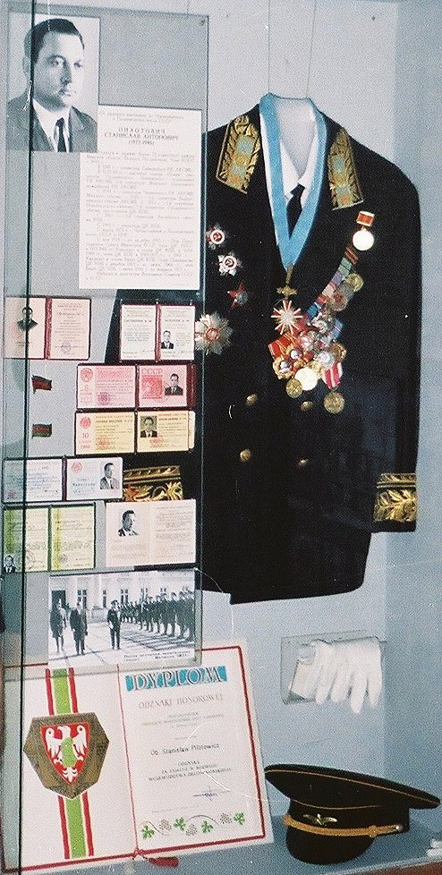 A wall display in memory of Stanislav Pilotovich (Станислав Антонович Пилотович, Stanisław Piłotowicz) in the Museum of the Great Patriotic War in Minsk.